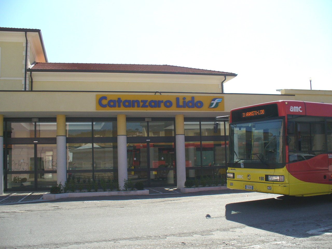 Irisbus bus (#150) in Catanzaro, Italy.